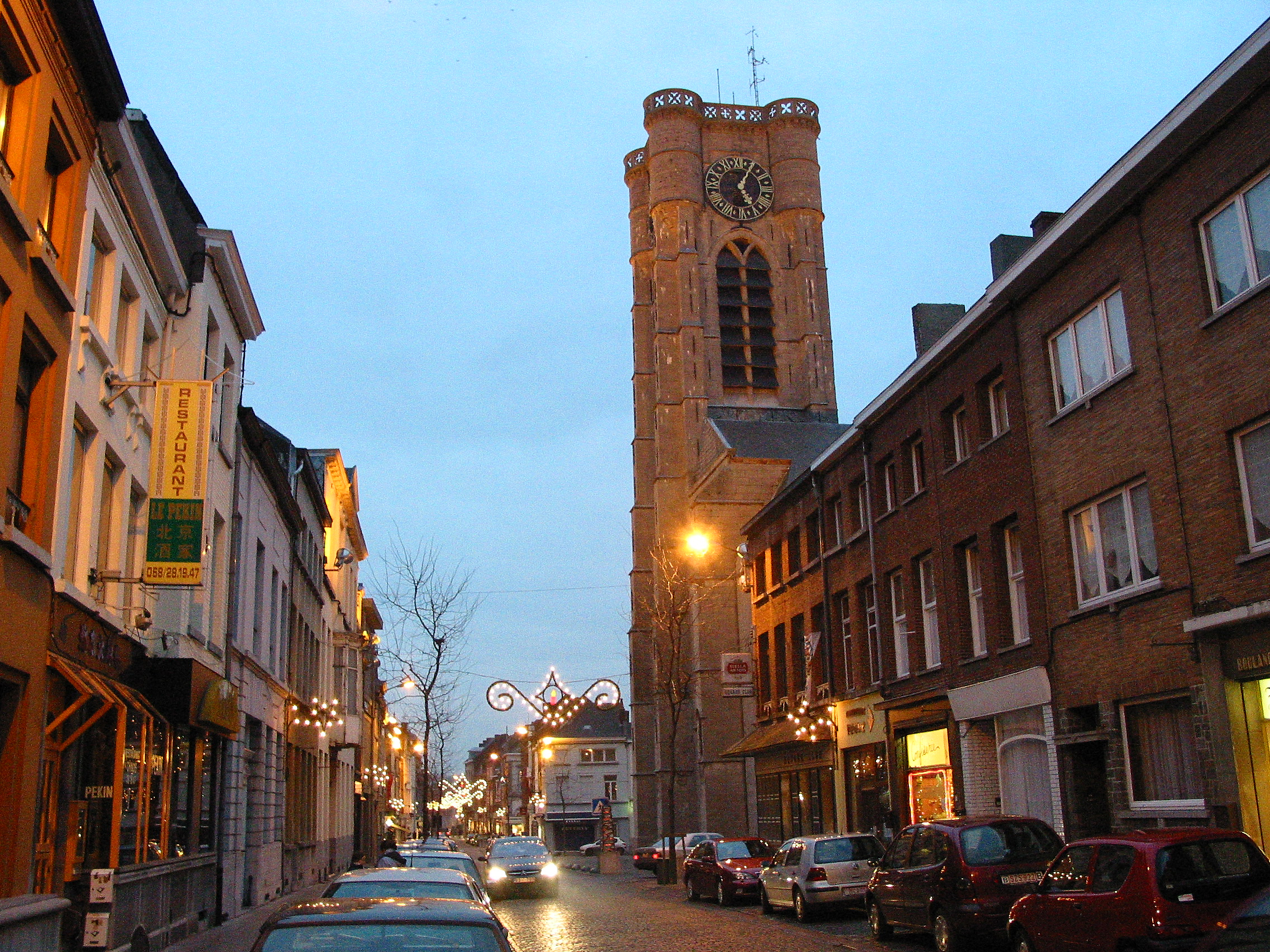 Ath (Belgium), rue de Pintamont - The Saint Julien colegiate church (XIV/XIXth centuries).